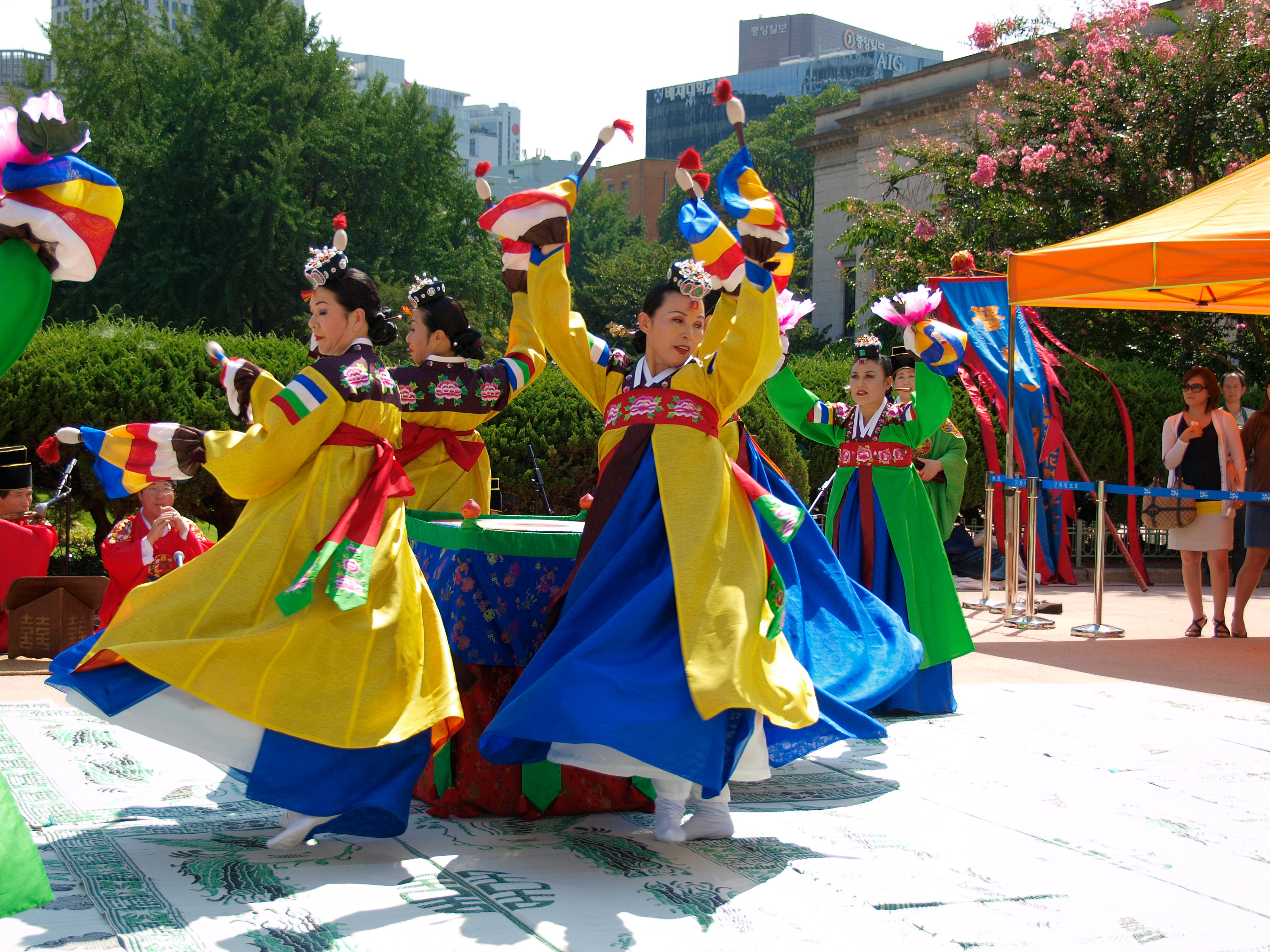 Jinju pogurakmuk is a variety of pogurakmu, literally meaning ball-throwing dance which has been handed down to Jinju, South Korea. Pogurakmu is one of Korean royal court dance. The performance was held in Sep. 10th, 2008 at Deoksugung, Seoul, South Korea. Further readings in Korean.[1][2]